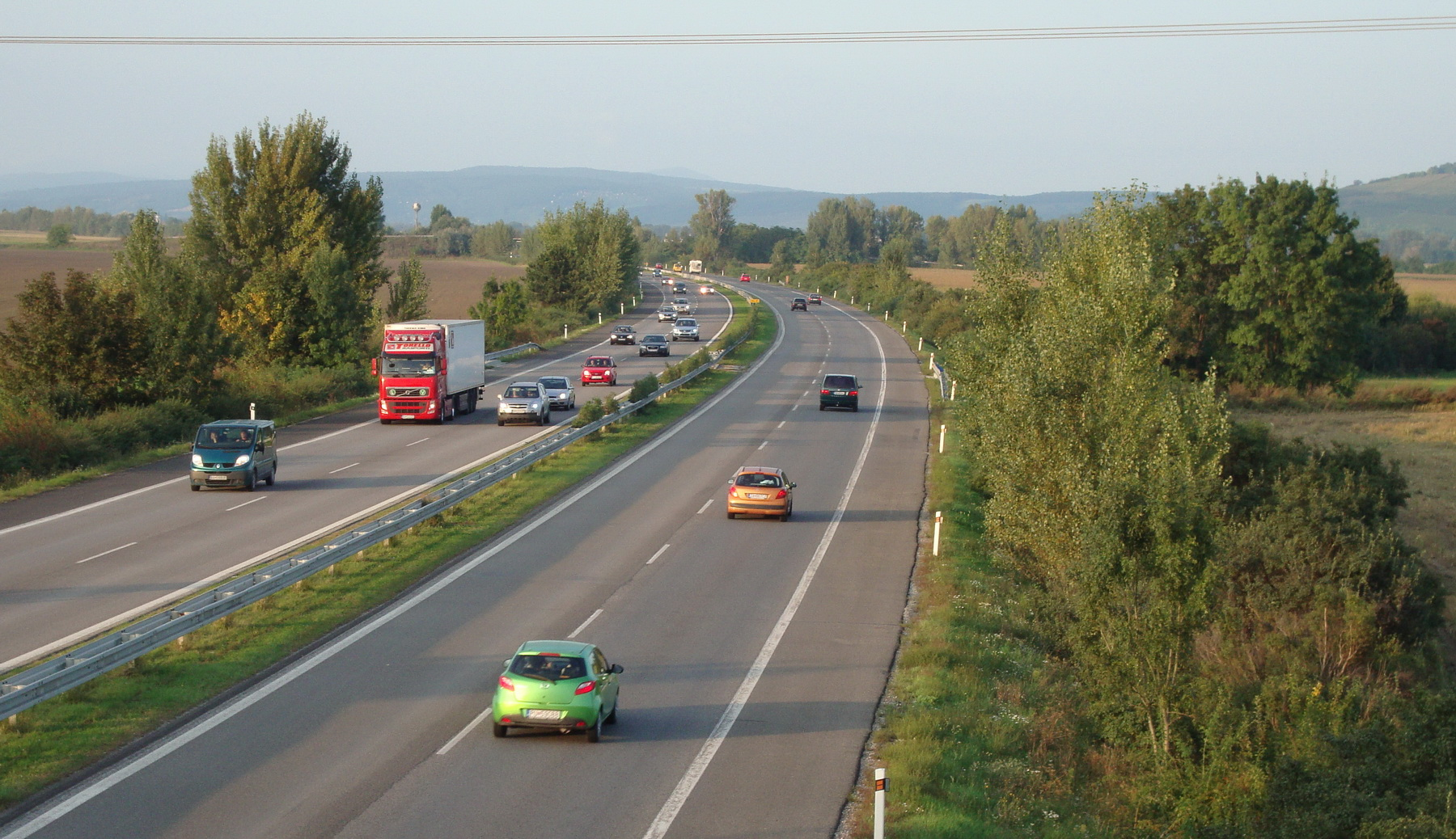 motorway D1 near Siladice village